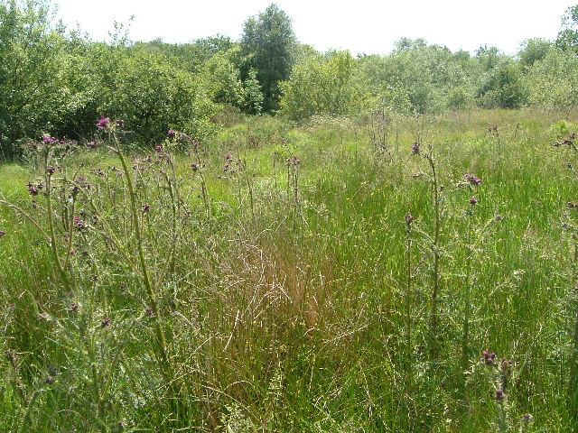 Freshmoor SSSI: "Looking south-west across part of Freshmoor Site of Special Scientific Interest on a slope in the Blackdown Hills, a bog habitat in decline. Prominent here is Cirsium palustre, the Marsh Thistle."